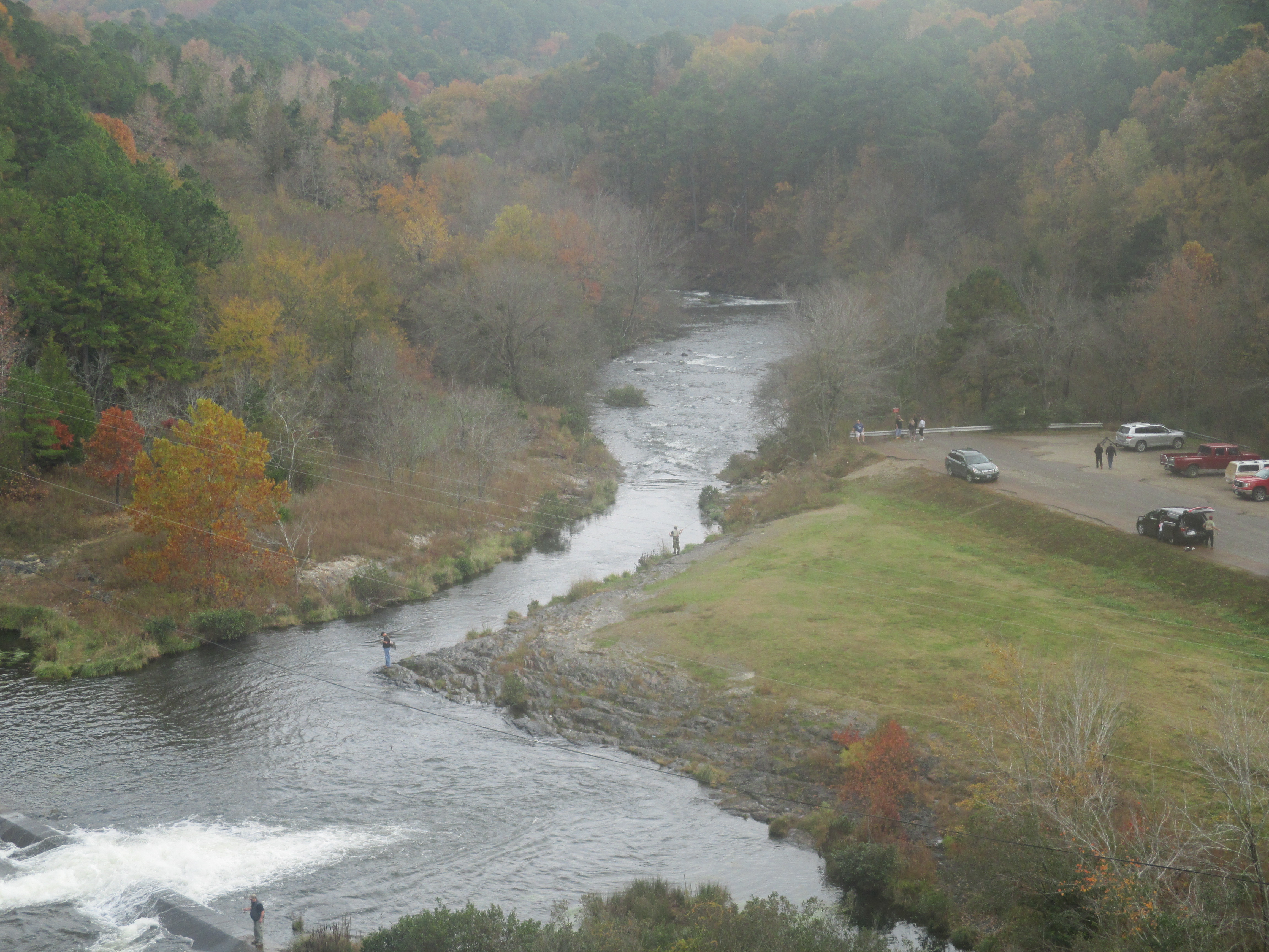 I took photo with Canon camera of Broken Bow Lake Spillway overlook.